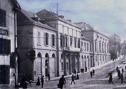 The Congress Hall of the First Zionist Congress in 1897.